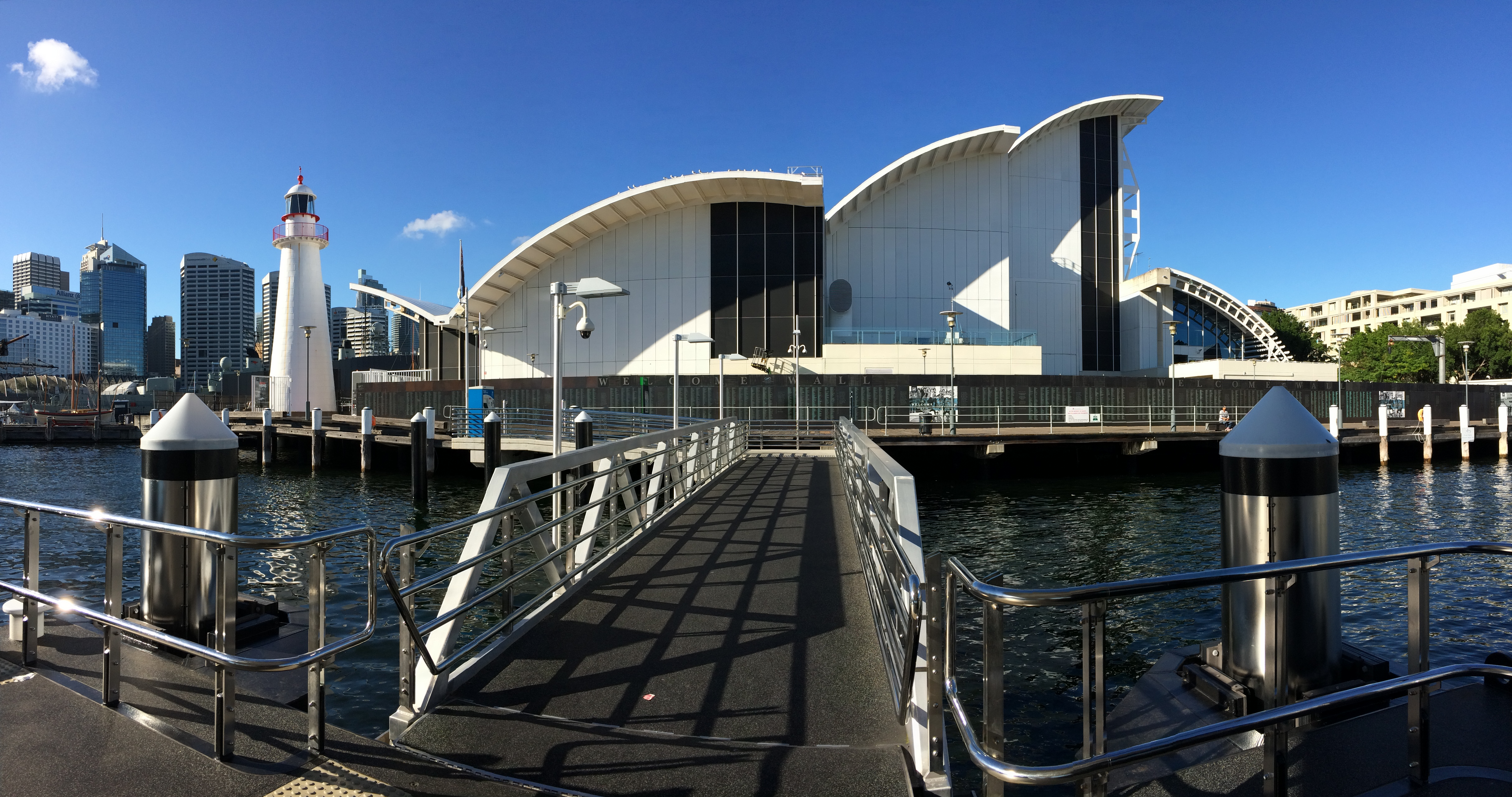 View of the Australian National Maritime Museum Pyrmont Bay ferry wharf in Pyrmont, New South Wales, as it appeared in March 2017. The building's wave-like appearance reflects its subjects inside, with collections painting an intimate history of maritime Australia on exhibit for the public. The Cape Bowling Green Light is visible at left, perched on the northeastern corner of the pier surrounding the museum.